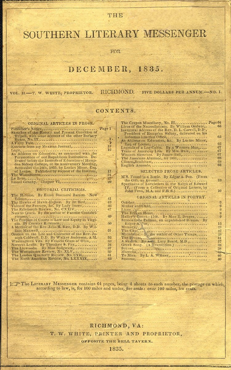 The cover of the December, 1835 issue of The Southern Literary Messenger magazine, published in Richmond, VA, by T.W. White. Included in this issue are the short story "MS. Found in a Bottle"and scenes from the drama "Politian" by Edgar Allan Poe.